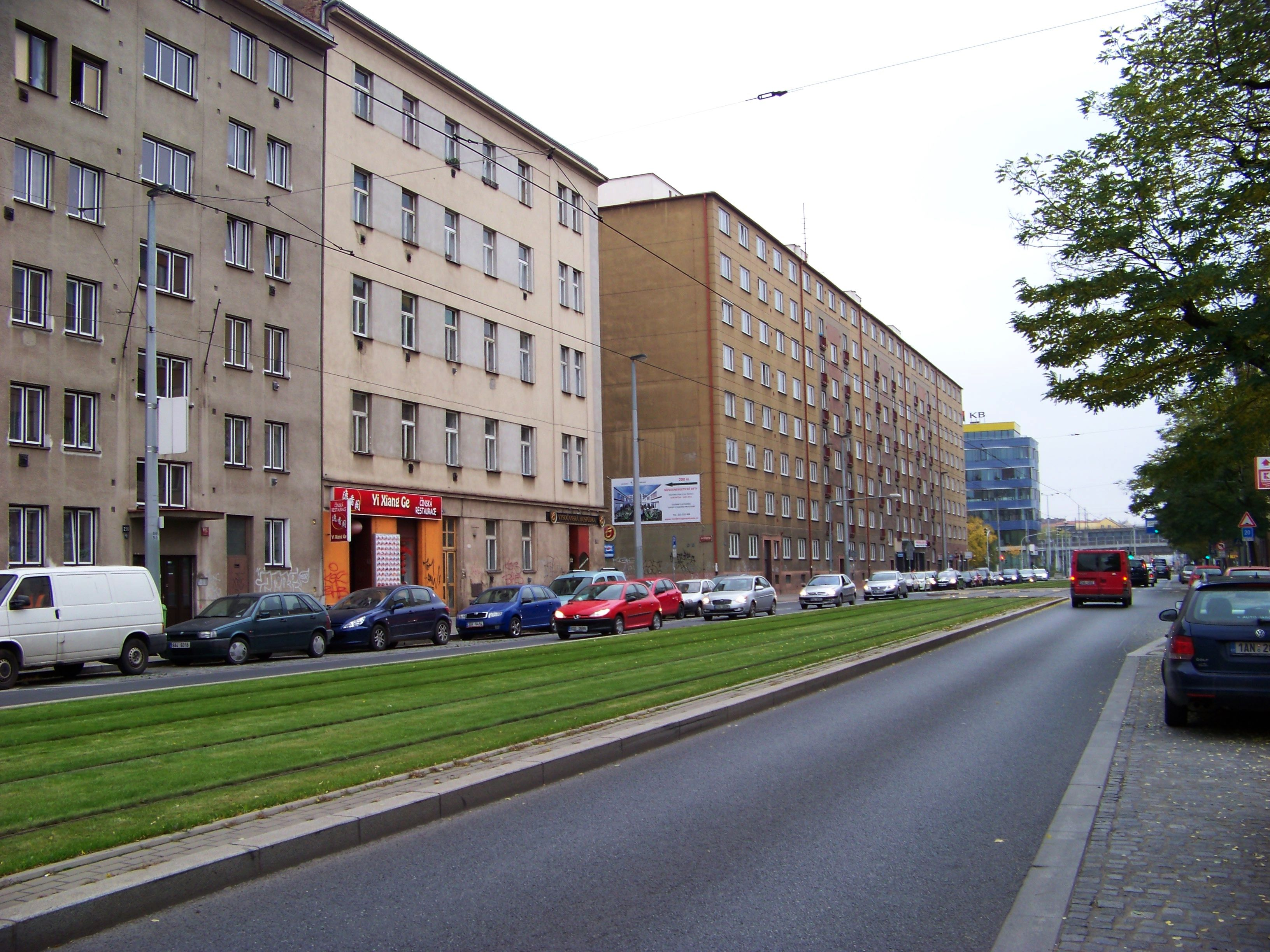 Prague-Libeň, the Czech Republic. Sokolovská 236–224. - OpenStreetMap(Info)